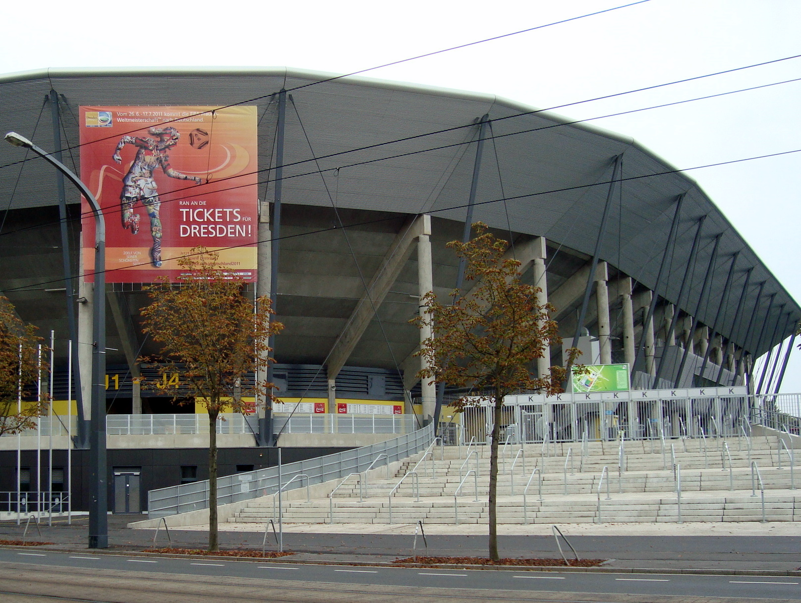 Photo of Rudolf-Harbig-Stadium in Dresden. The German women beat Canada in an international exhibition match 5-0 (1-0). In front of 20,431 fans, German player of the year Inka Grings scored the 1-0 at seconds minute by a penalty. Germany dominated throughout first half but failed to expand the lead. Goals scored in second half Fatmire Bajramaj (54.), topscorer at the Under 20 World Cup, Alexanda Popp(76.), Melanie Behringer (79.) and Celia Okoyino da Mbabi (83.). Germany coach Silvia Neid brought to a conclusion: "In first half we weren't consequent enough, but then we got the Canadians tired."